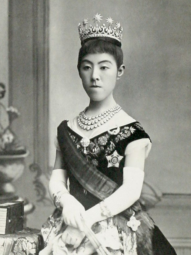 Empress Shōken (Haruko) (1849-1914) in Western garb, a sign of the reform taken under the Meiji era (1868- 1912)